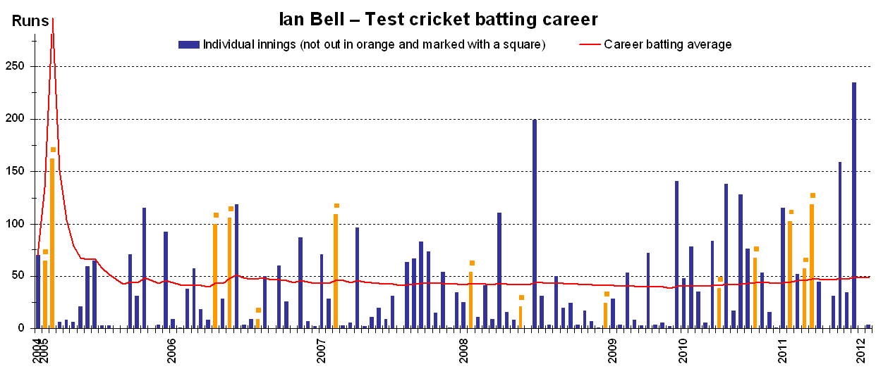 This graph details the test match performance of cricketer Ian Bell and was created by en.wiki user:EdChem. Each bar indicates a single test match innings, blue ones for innings in which he was dismissed, orange ones (marked with a square) for innings in which he batted but was not out. The red line shows career batting average as at the end of each innings. An alternative version, File:Ian Bell test batting career v1b.png, shows the same data but with a different vertical scale. Another file, File:Ian Bell test batting career v2.png, shows a 10 innings moving average instead of the career batting average.The graph was generated with Microsoft Excel 2003, the resulting chart being copied to Adobe Photoshop 9 and saved in .png format, using data from Cricinfo [1] and Howstat [2]. This version is current as at 22 January 2012, which is also the date it was prepared.